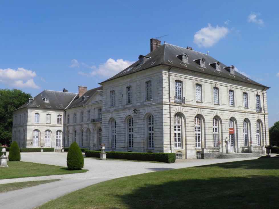 West wing of the Abbot's Palace. Abbaye de Chaalis, Oise, France